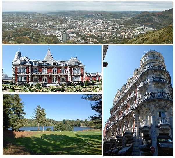 Lourdes city